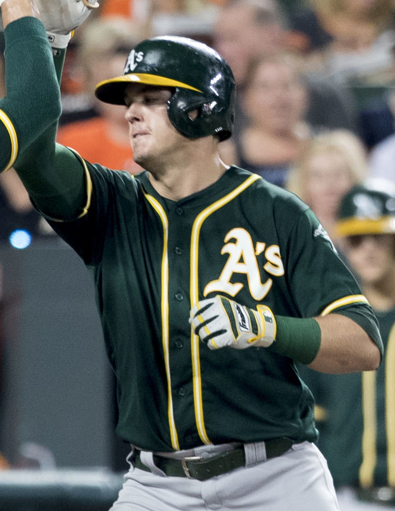 A's at Orioles 8/22/17